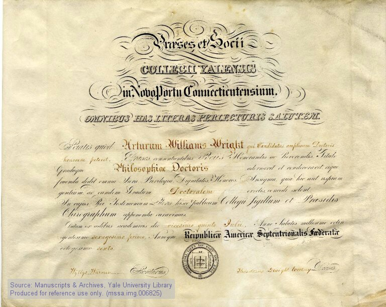 Ph.D. diploma awarded to Arthur William Wright by Yale University in 1861. Wright was one of three Yale students receiving the Ph.D. diploma that year, the first time it was awarded in the United States. Wright's doctorate was in physics.